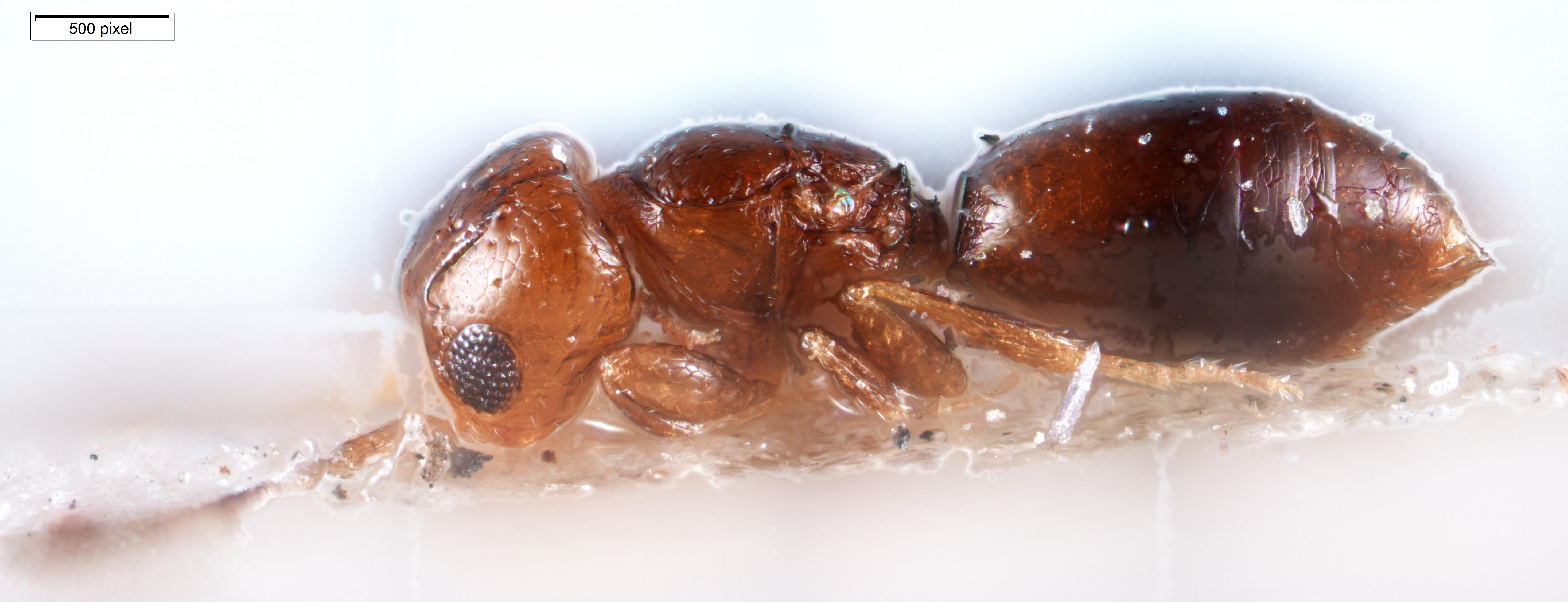 Bright field image of Microceraphron subterraneus Szelényi paralectotype (design by Dessart 1966) Hym. Typ. No. 6175